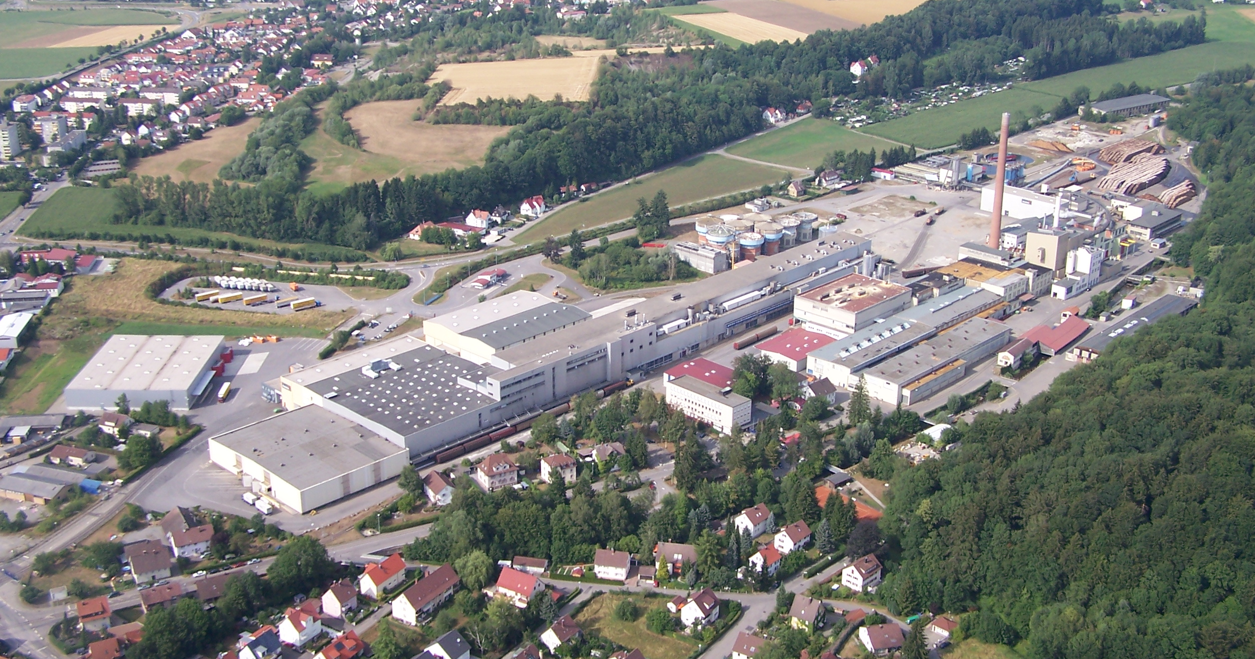 Stora Enso Baienfurt Mill